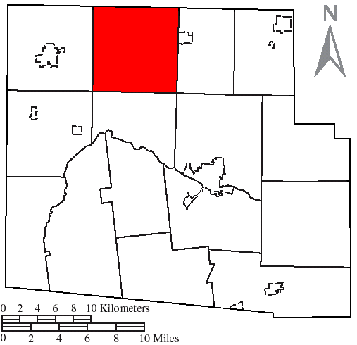 Made by the US Census and modified by myself to highlight the township